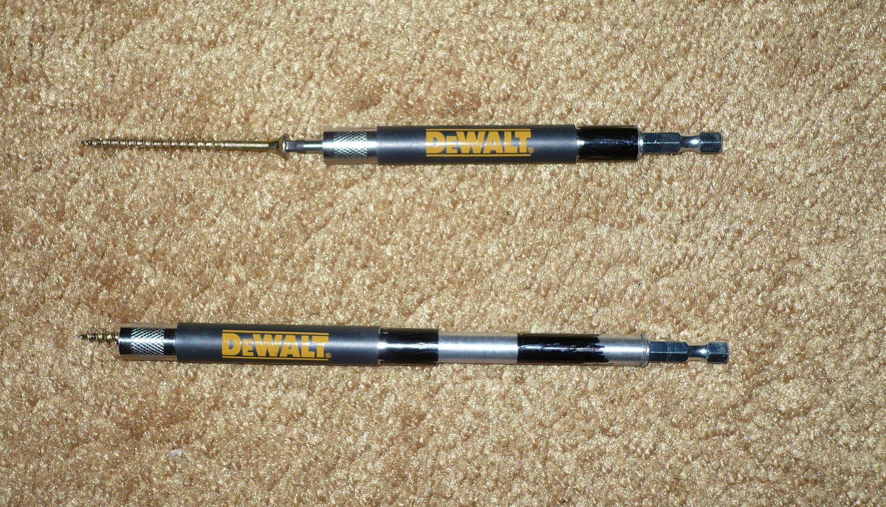 driver guide